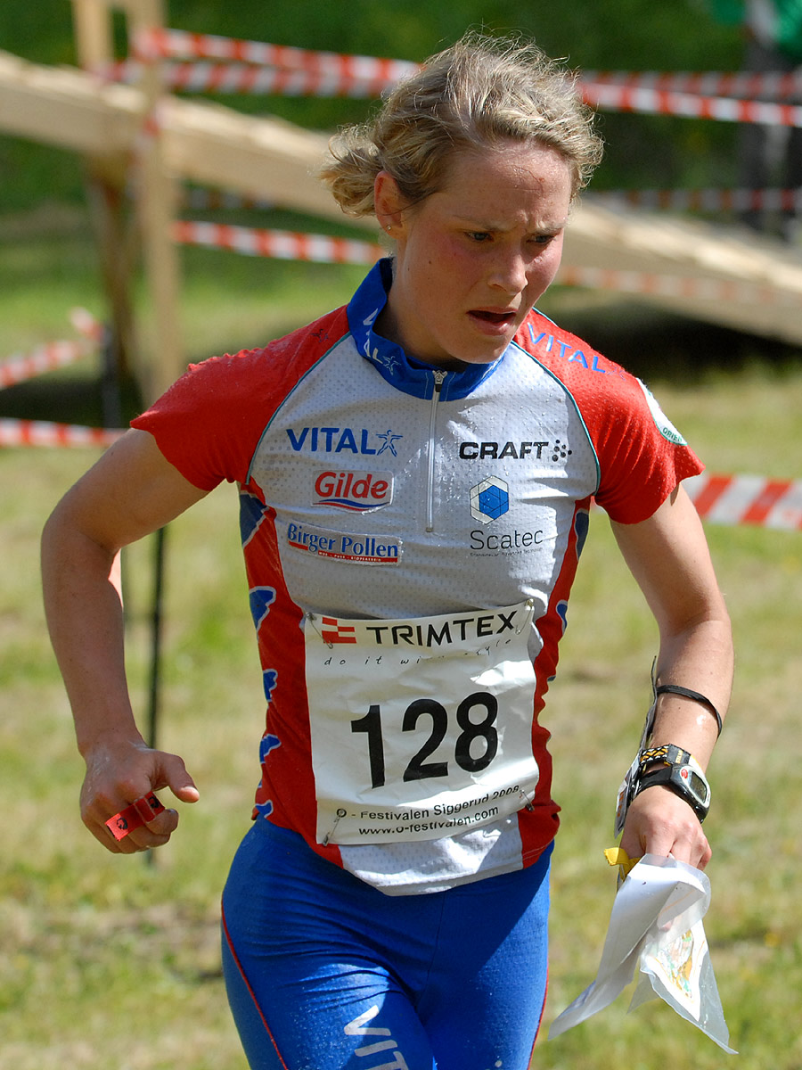 Mari Fasting at the World Cup event at Siggerud 2008.